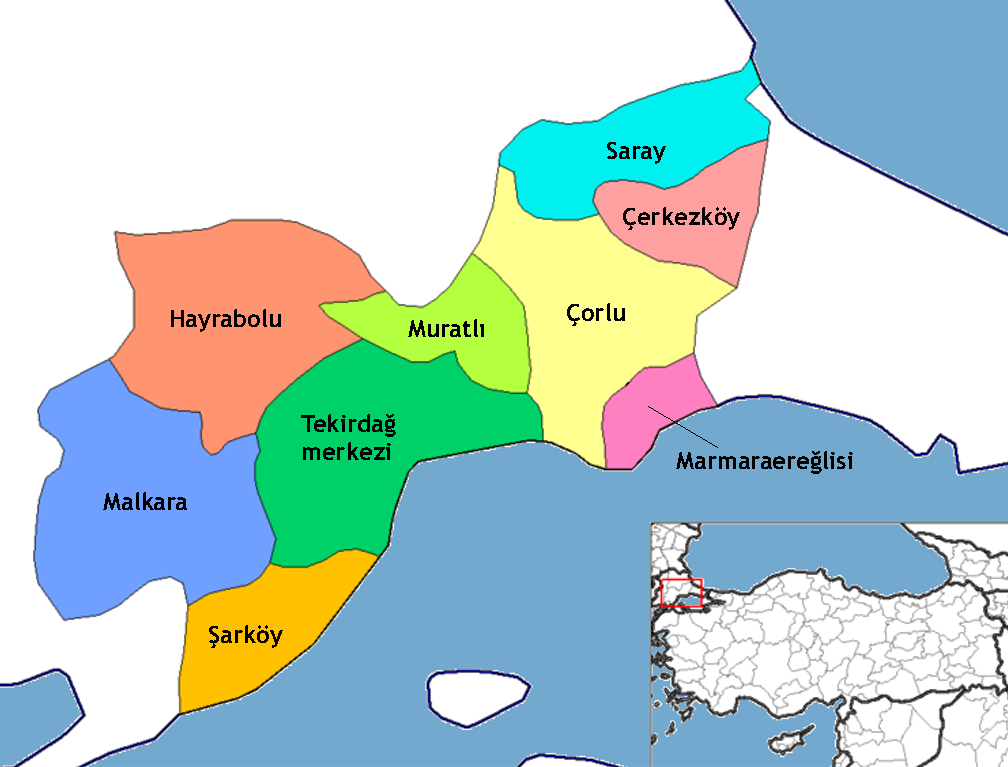 Map of the districts of Tekirdağ province in Turkey. Created by Rarelibra 17:51, 4 December 2006 (UTC) for public domain use, using MapInfo Professional v8.5 and various mapping resources. Edited by One Homo Sapiens Corrected text where İ,Ş,ı,ğ,or ş occurs in name. Source: [statoids-com]. Increased font size and enhanced color differences among adjacent districts.